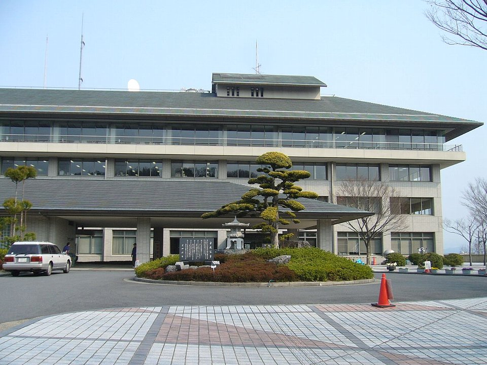 Kyotanabe City Hall in Kyoto-fu, Japan